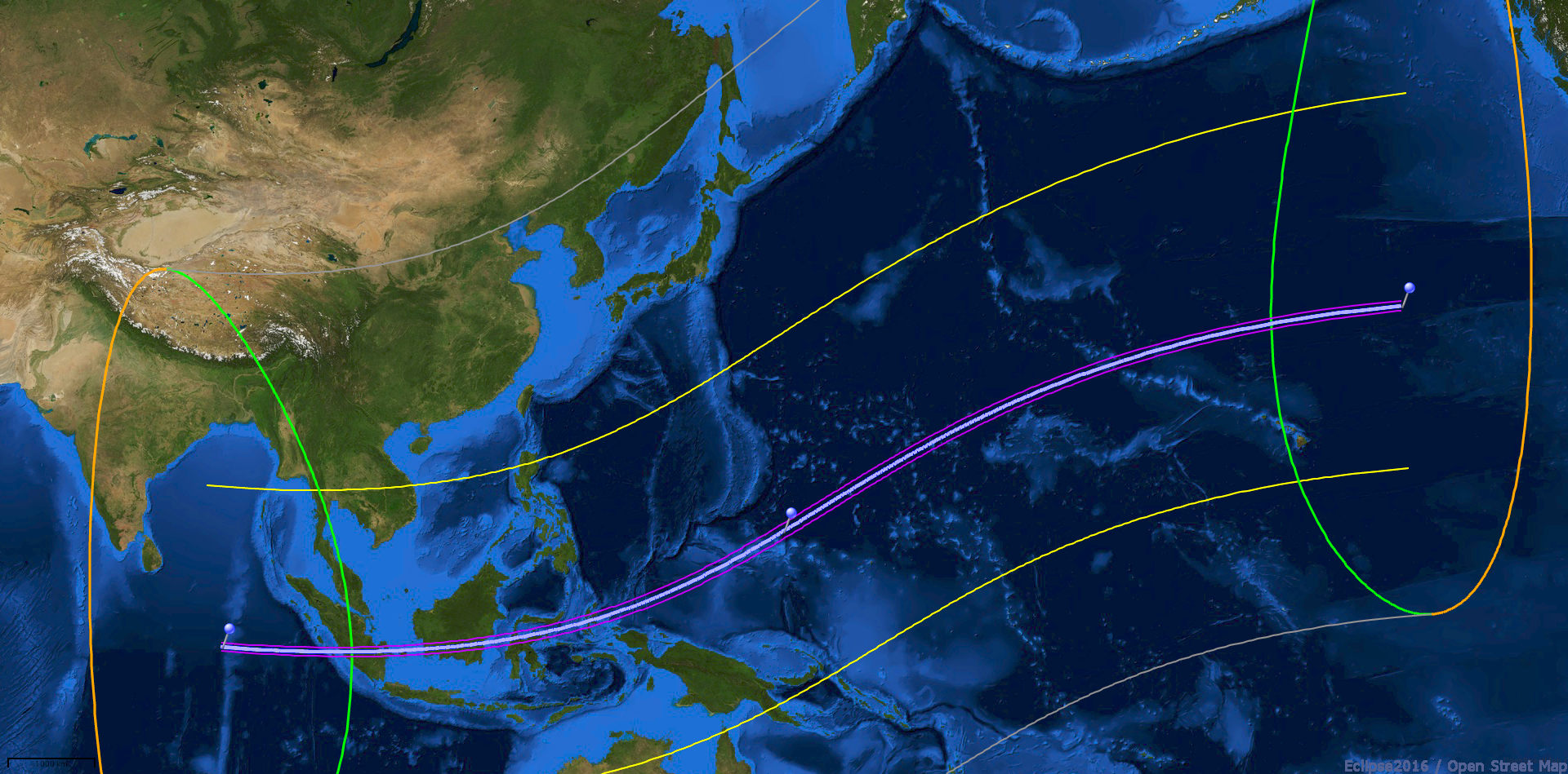 Global path of the total solar eclipse 2016-03-09 over the Indian Ocean, South-East Asia and the Pacific. Created with Eclipse2016 Android App / Geodata from OpenStreetMap Global path of the total solar eclipse 2016-03-09 over the Indian Ocean, South-East Asia and the Pacific. Markers show beginning and end of the centerline and the point of maximum eclipse. Created with Eclipse2016 Android App / OpenStreetMap